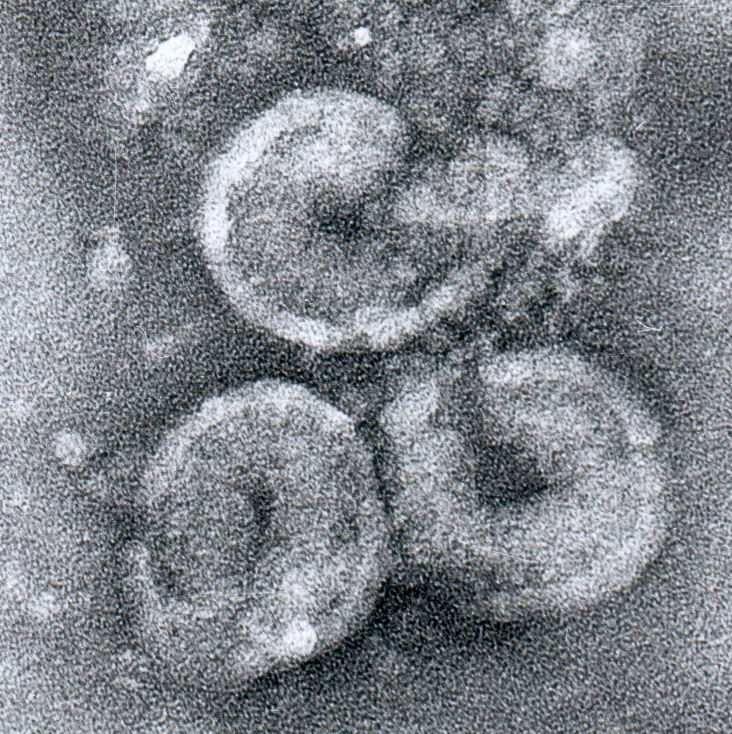 Electron micrograph of equine torovirus particles. Three virus particles are shown, they are about 100 nanometers in diameter and have been negatively stained with ammonium molybdate.